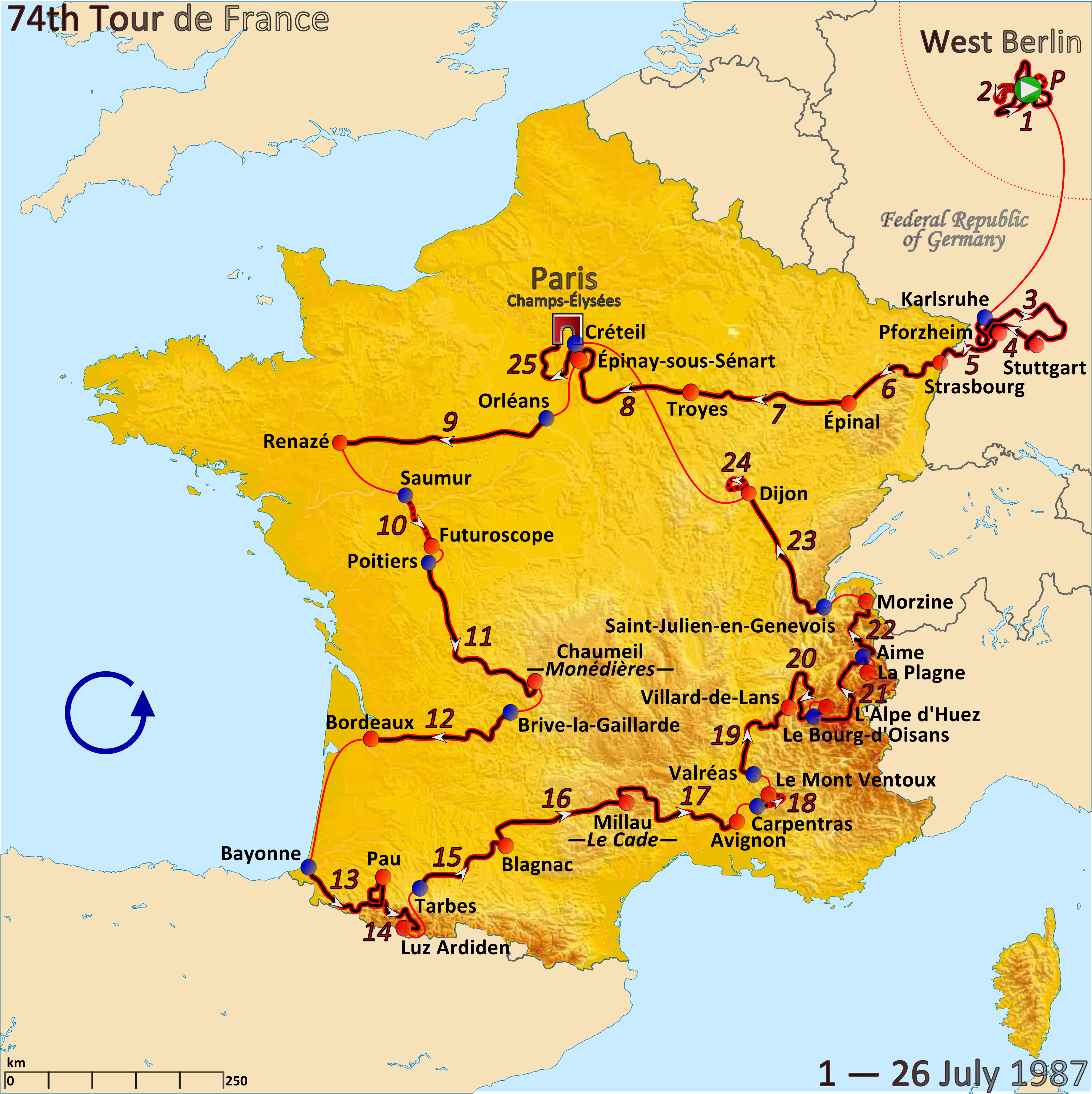 Map of the 1987 Tour de France created in Inkscape using accurate stage maps from touratlas.nl.